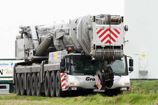 liebherr ltm1500 mobile crane